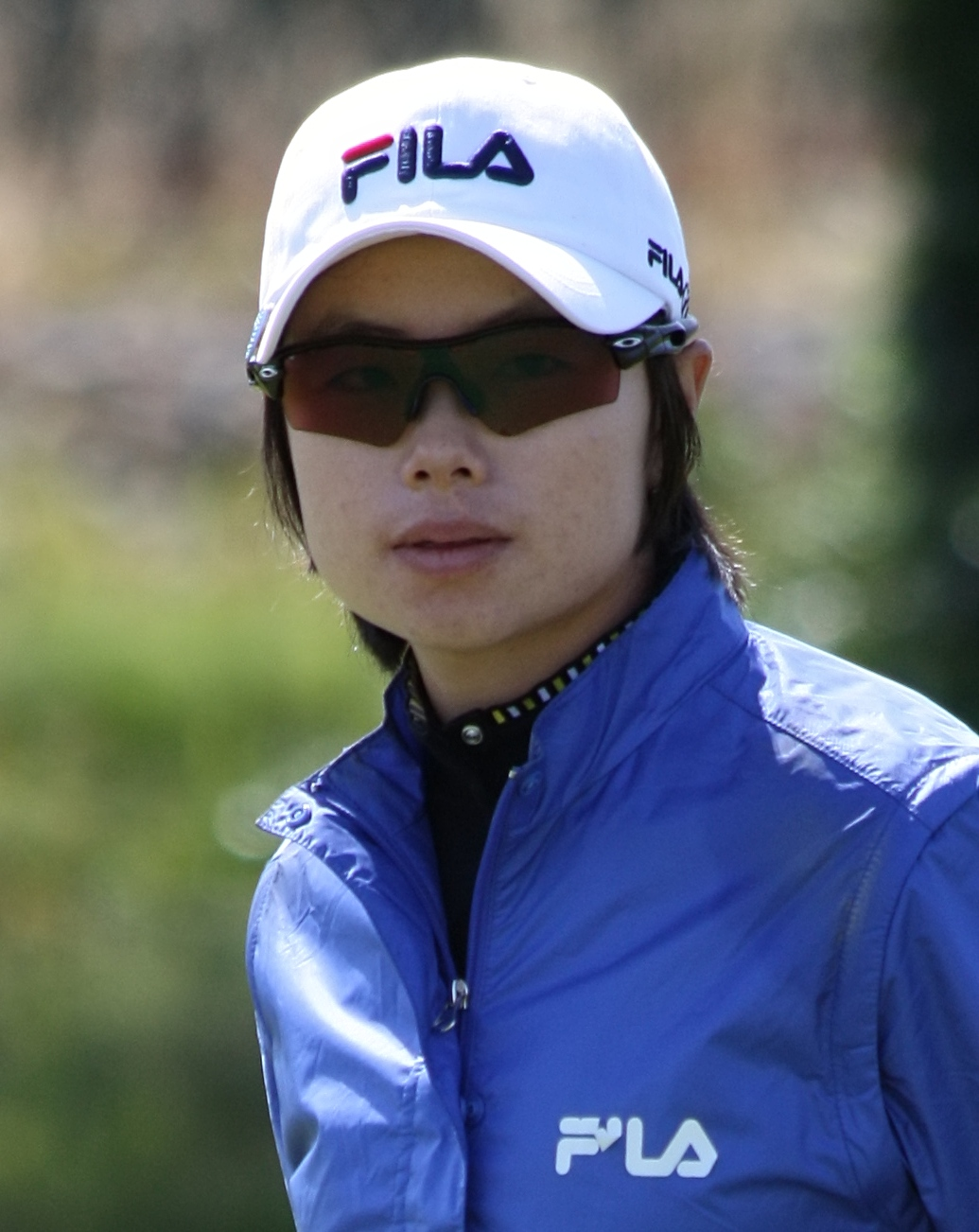 LYTHAM ST ANNES, UNITED KINGDOM - JULY 27: Eun-Hee Ji of South Korea walks the 2nd fairway during first practice round before 2009 Ricoh Women's British Open held at Royal Lytham & St Annes on July 27, 2009 in Lytham St Annes, England. (Photo by Wojciech Migda)